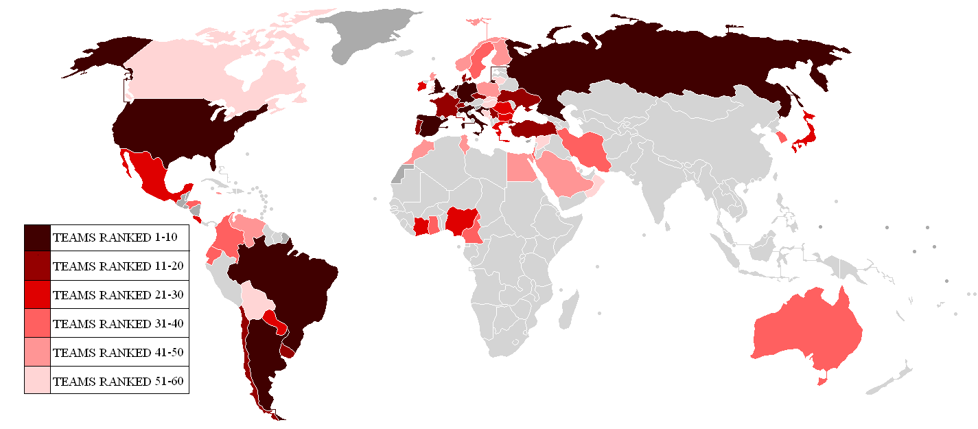 Location of the 60 highest ranked teams by the World Football Elo Ratings. Key to the dots denoting small countries Version of Image:BlankMap-World-v4.png using thin lines to join areas owned by the same country Please overlay with a white layer or ocean layer after bucket-filling to hide the lines. This can be done in a program such as GIMP. Commons talk page gives list of co-ords and instructions for a way of doing automated bucket-filling and creating a GIMP script to use with them. If you plan on generating a new map for wikipedia by zooming in on this map and making some modifications, please consider a source map in SVG format instead, which can produce a higher quality image. These can be found in the SVG section at Wikipedia:Blank Maps.